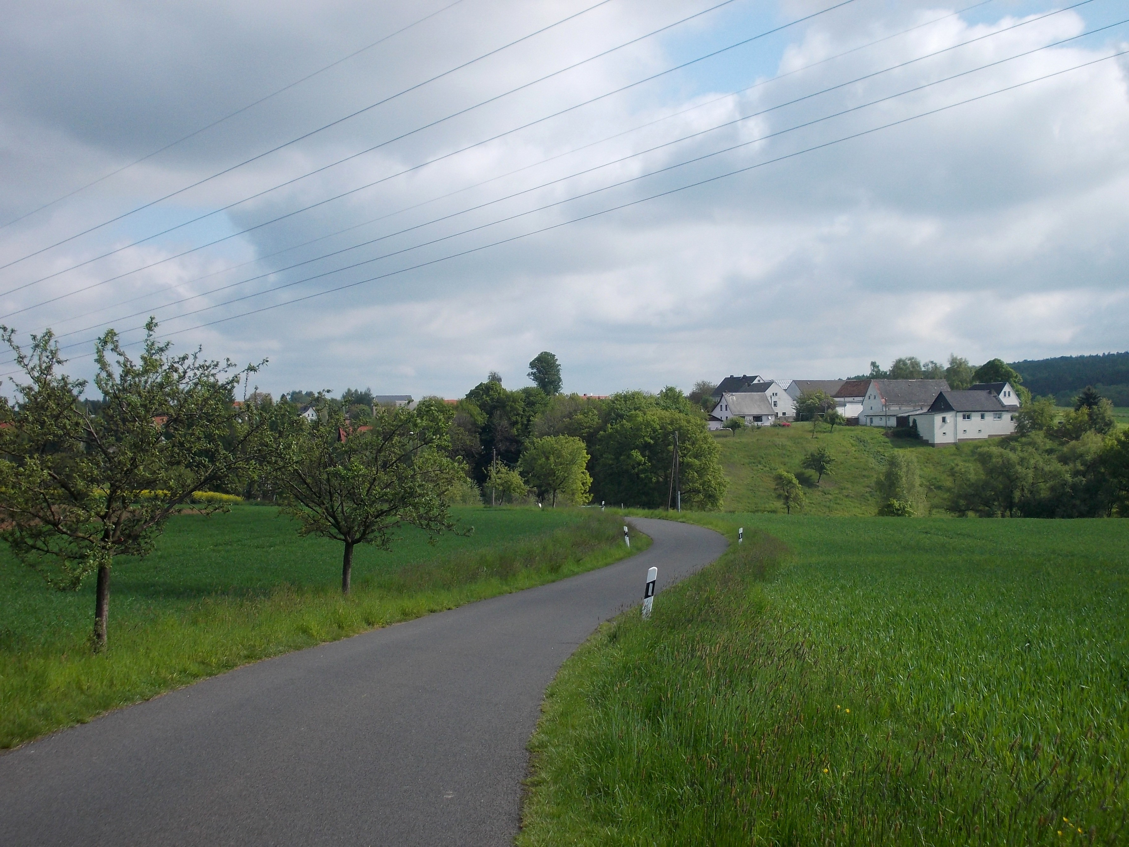 Carsdorf (Wechselburg, Mittelsachsen district, Saxony) from the south-west